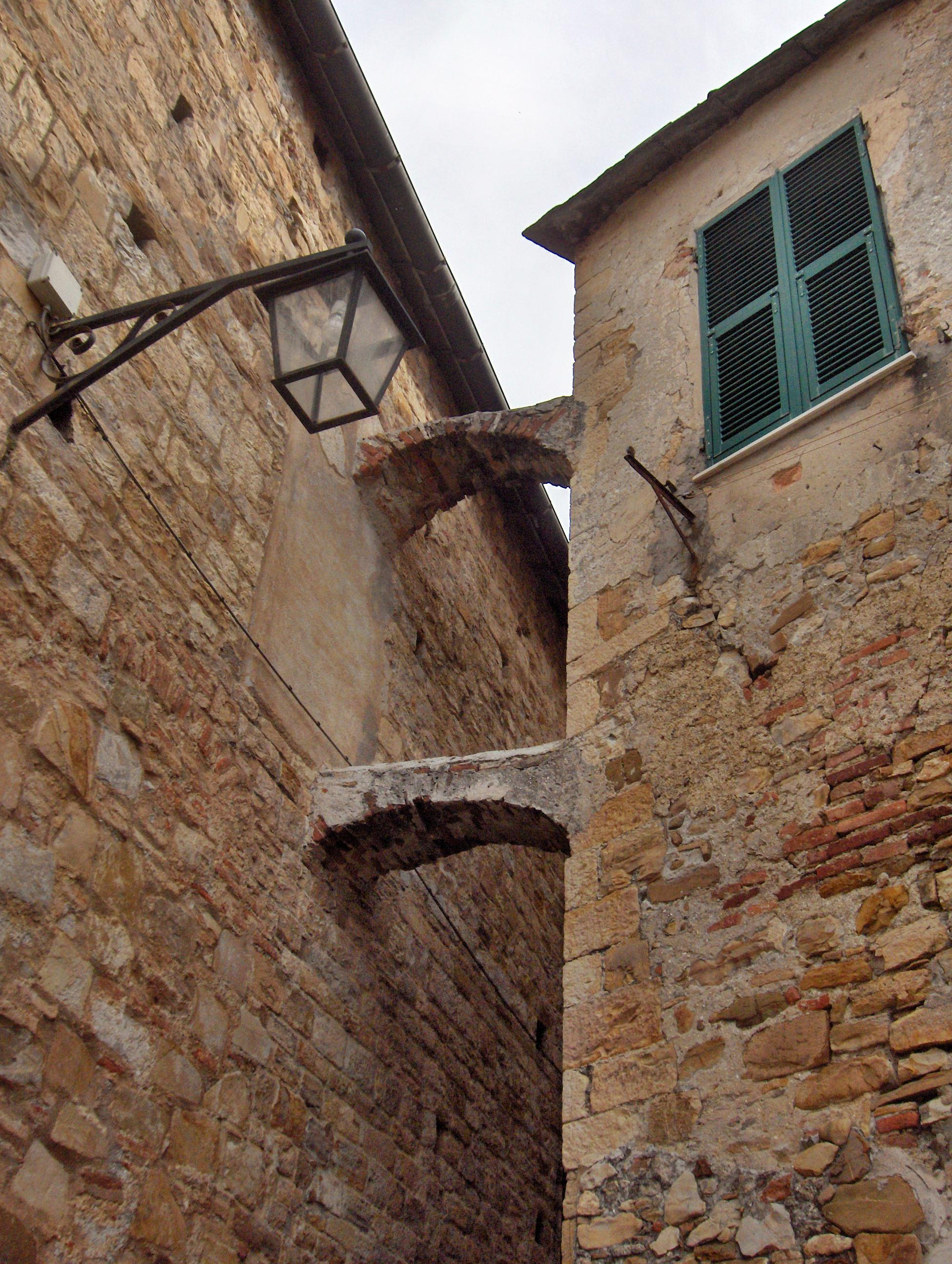 The Romanesque church Santa Maria Assunta, Diano Castello, Flower Riviera, Italy